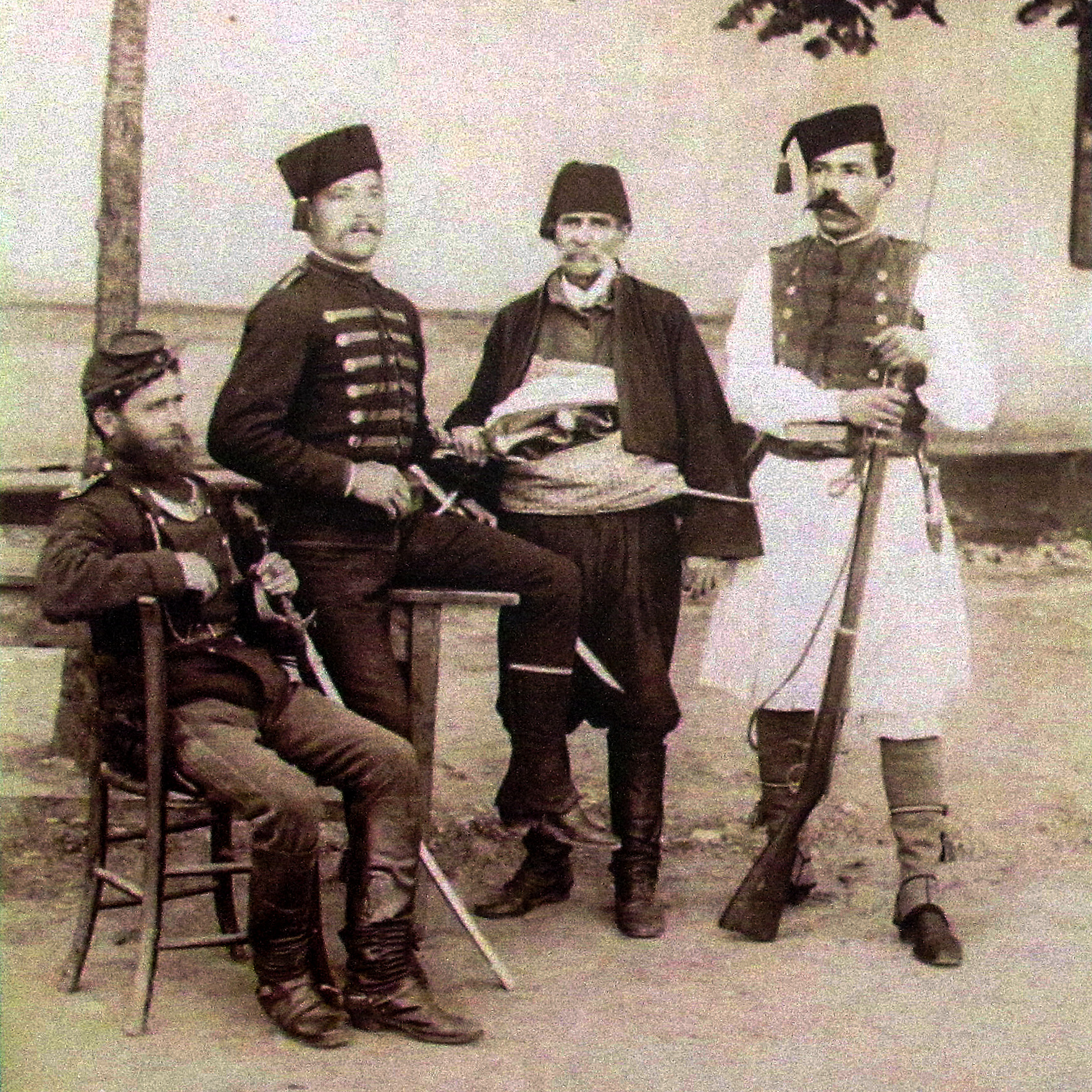 Serbian pandur 3 from left (1881)